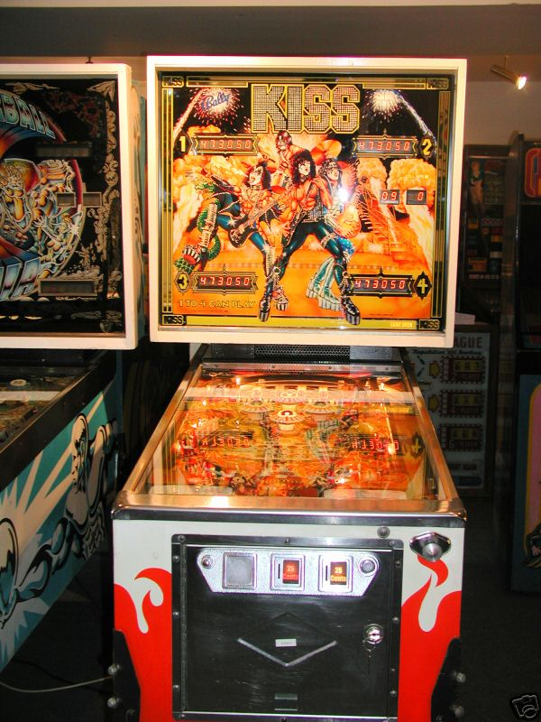 Full shot of German KISS pinball machine.